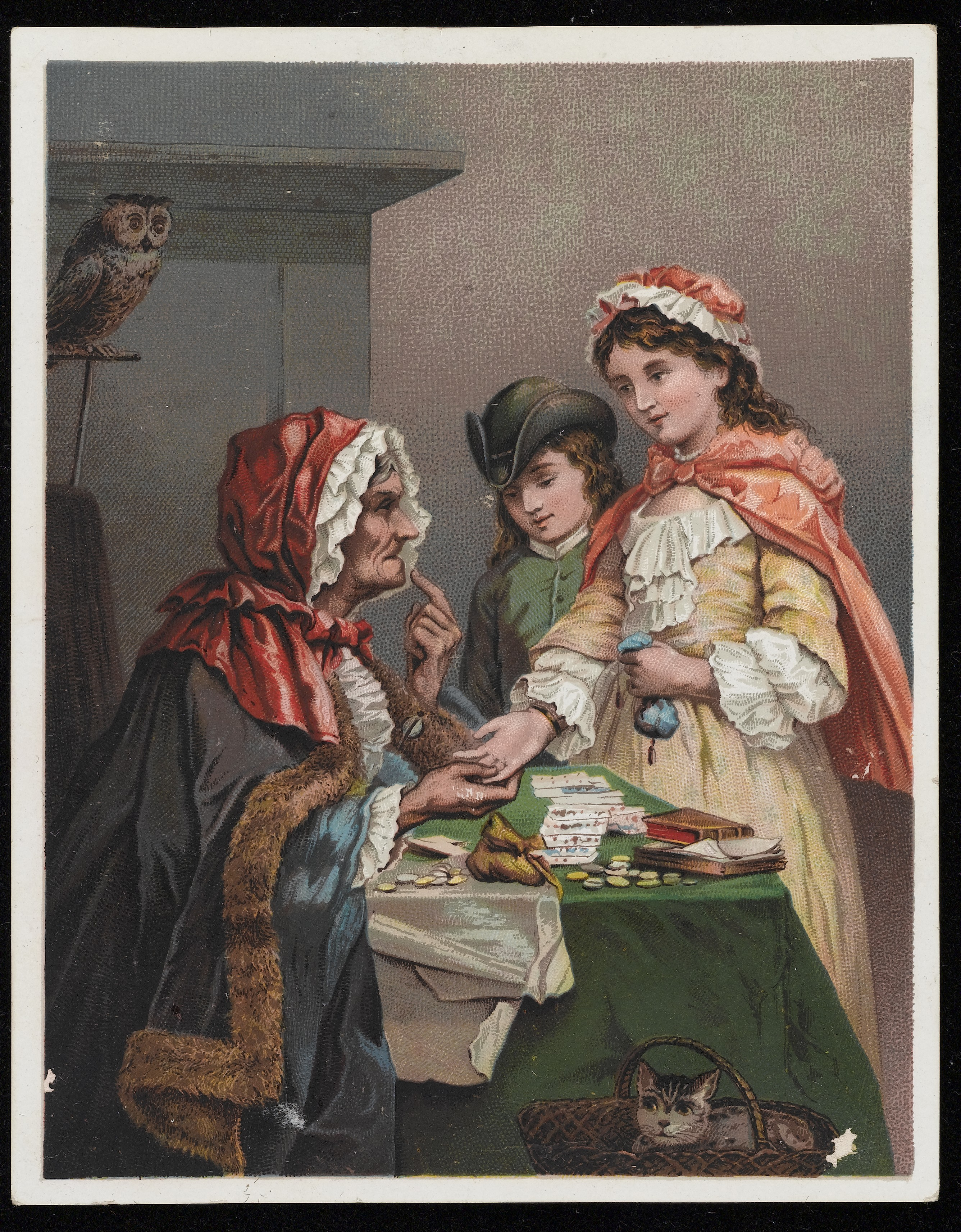 The Gypsy Fortune Teller. Colour card depicting young girl having her palm read by a fortune teller. A cat and an owl look on. This is a trade card for Dr Jaynes expectorant. General Collections Keywords: Drug Industry; De Witt's Kidney & Bladder Pills.; Dinneford's Pure Fluid Magnesia.; Distaquaine V-K.; DQV Elixir.; Distaquaine V.; Solupen.; DQV Sulpha.; Dr. Jayne's Tonic Vermifuge.; Dr. Jayne's Sanative Pills.; Dr. P. O. Baldo's Celebrated Blood and Liver Pills.; Old Dr. Jacob Townsend's United States Sarsaparilla.; Tensival.; Distaval Forte.; Pharmaceutical Preparations; Dr. Hand's Chafing Powder.; Dr. Hand's Pleasant Physic.; Dr. Hand's Cough & Croup Mixture.; Dr. Jayne's Expectorant.; Penicillins; Distaval.; Distivit 100.; Dr. Grosvenor's Liveraid.; Distivit 20.; De Witt's Pills.; Bardella.